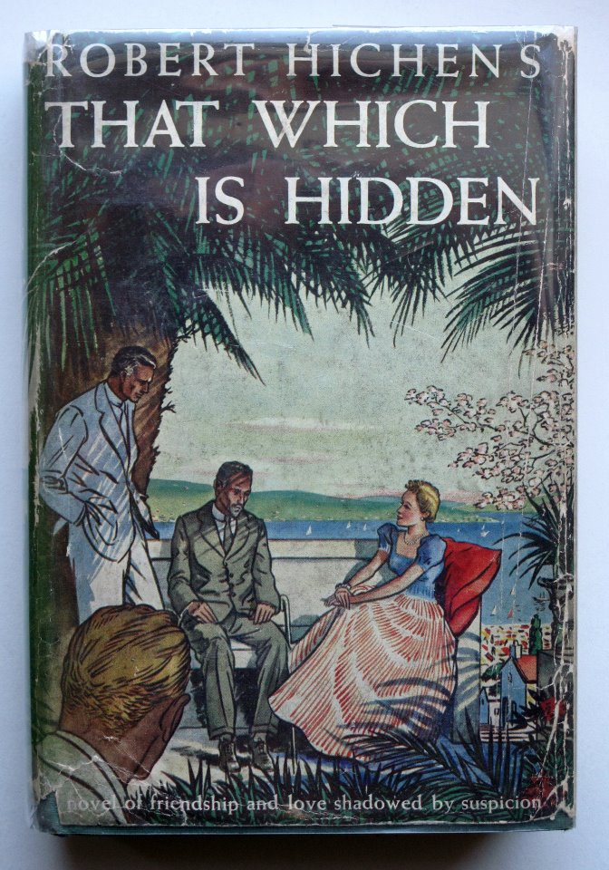 U.S. first edition of Robert Hichens, That Which Is Hidden (New York City: Doubleday, Doran, 1940); collection of Gerard Koskovich (San Francisco).